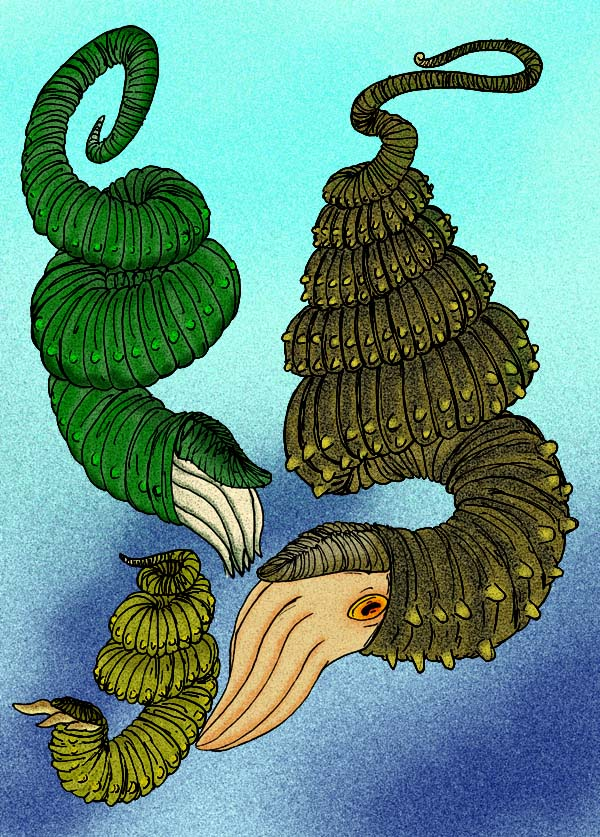 Reconstructions of the heteromorph ammonites Didymoceras stevensoni (right), D. nebrascensis (upper left), and D. cheyennese (lower left), of the Upper Campanian epoch of Cretaceous United States.